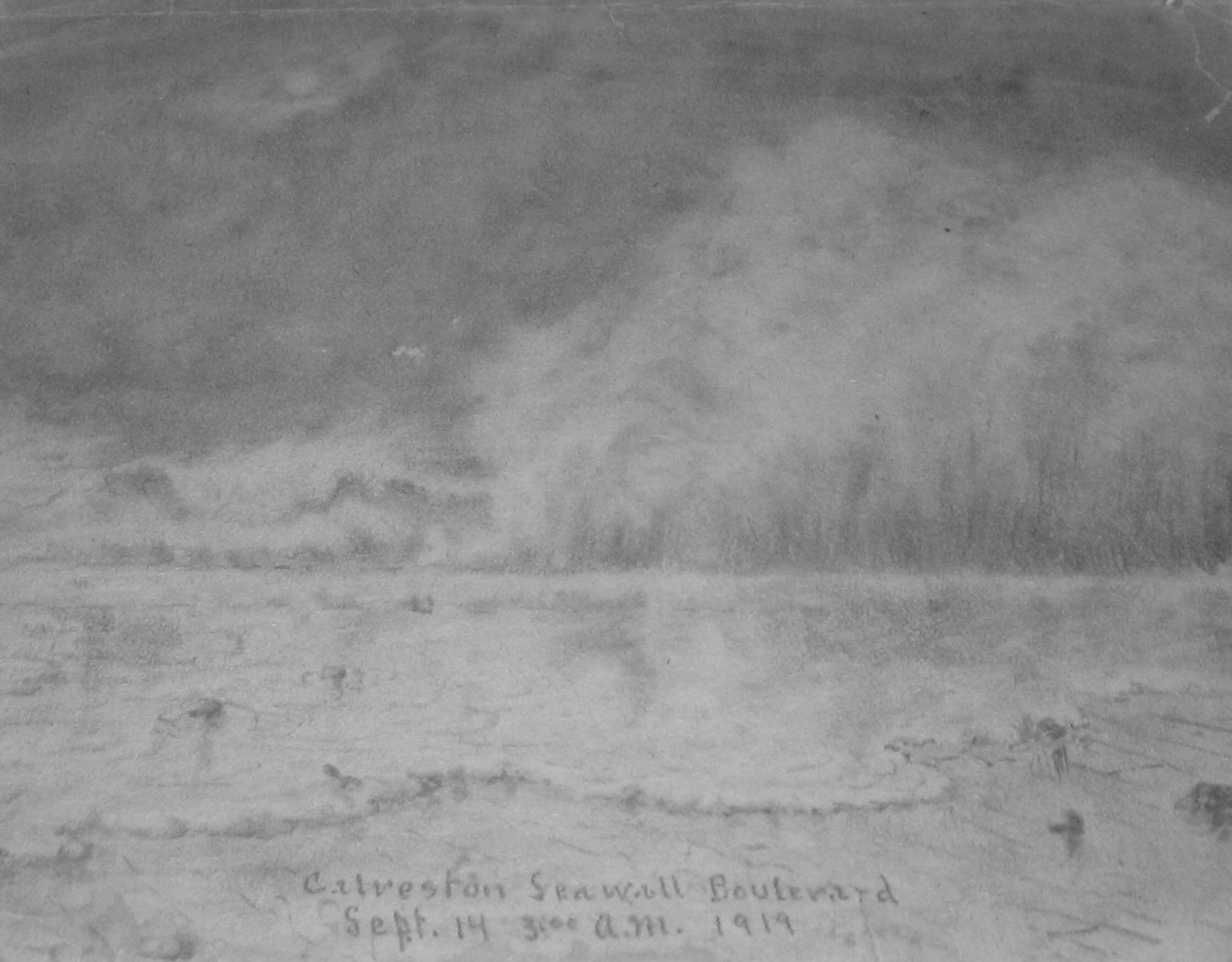 This is a sketch of the hurricane of 1919 waves hitting the seawall of Galveston, Texas. It was drawn by Paul R. Schumann on September 14, 1919 at 3:00 am.